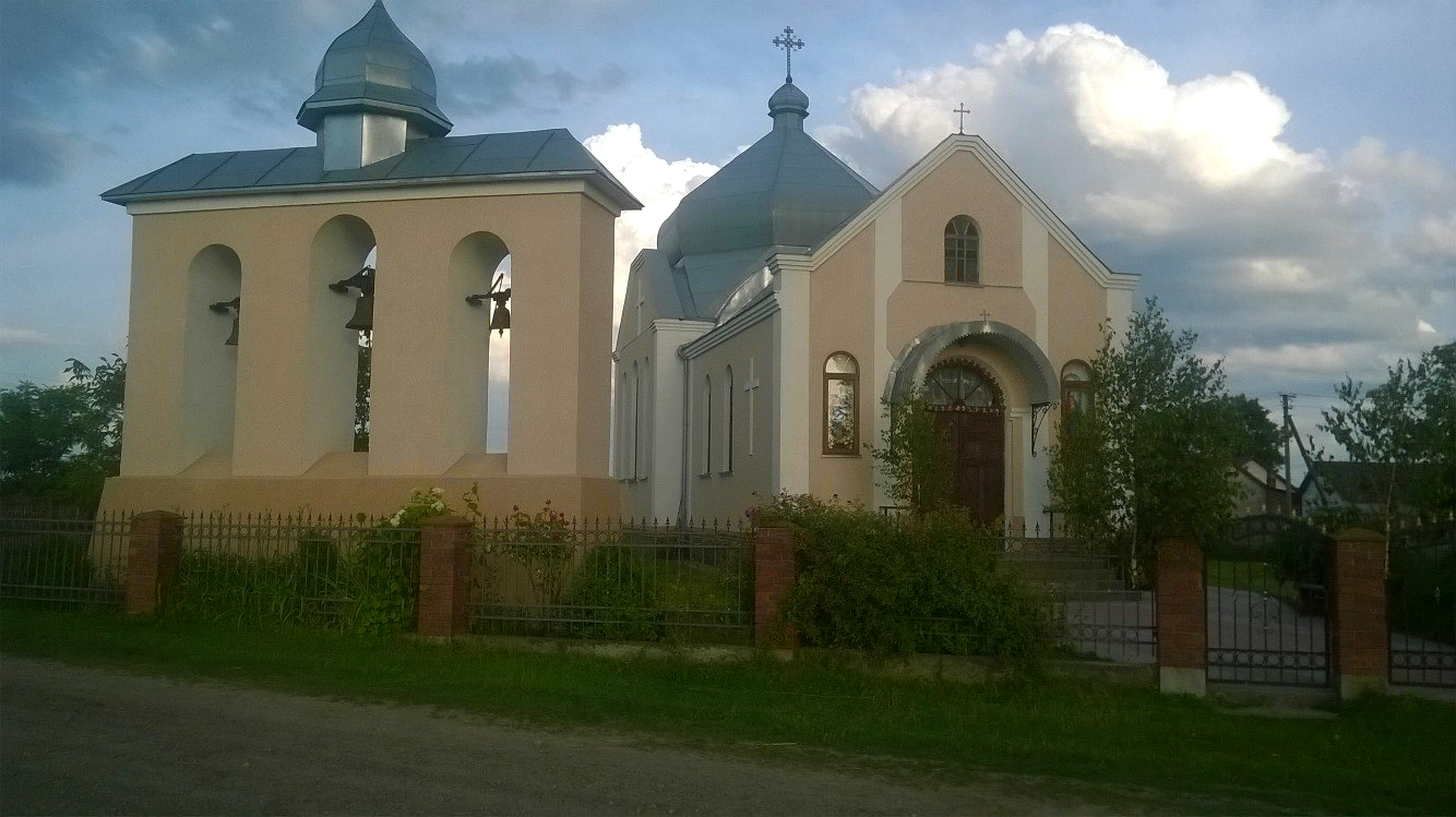 Greek Catholic Church in Mazyarka